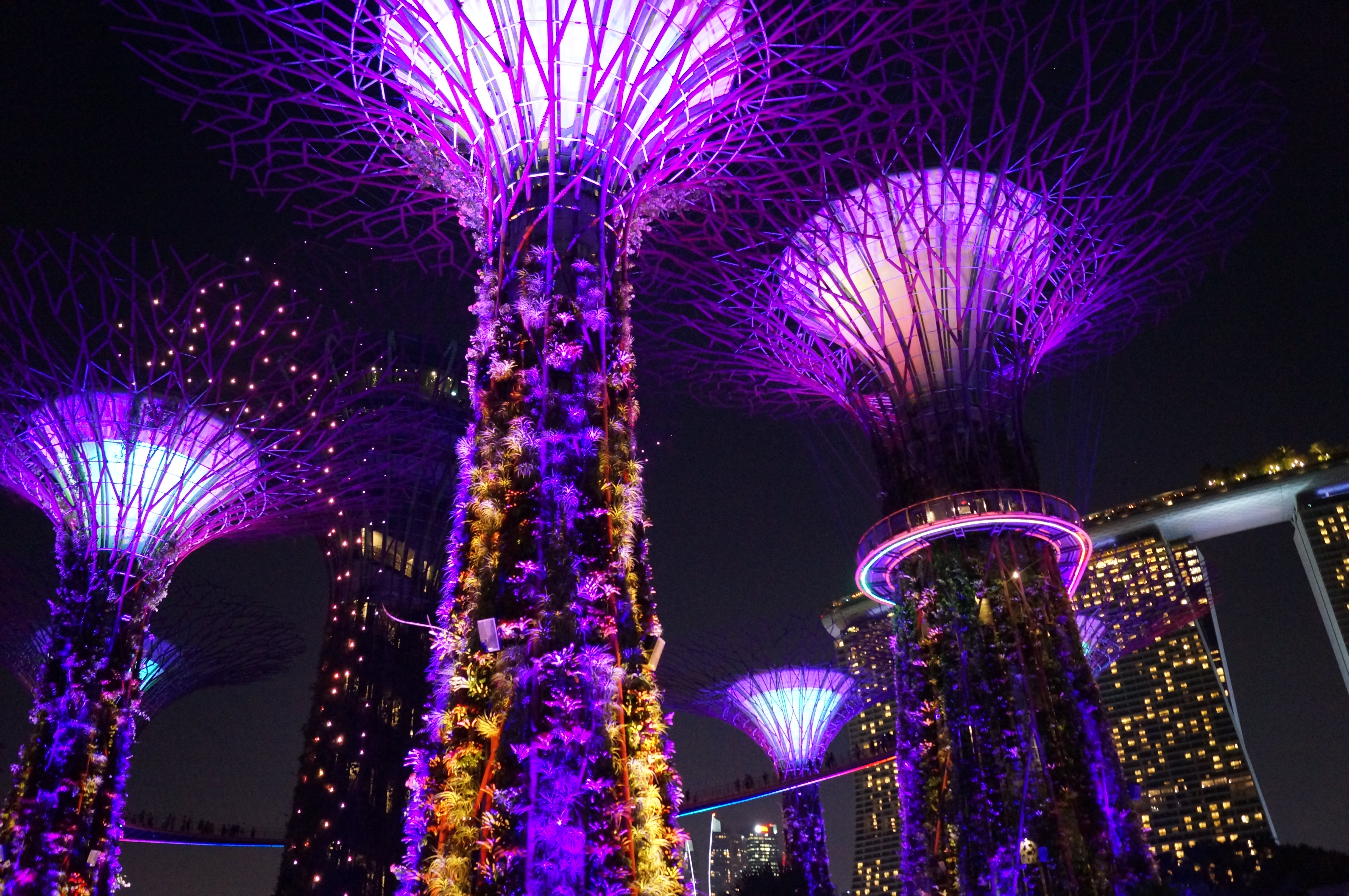 Supertree Grove in the Gardens by the Bay, Singapore, during the light show at night, March 2019